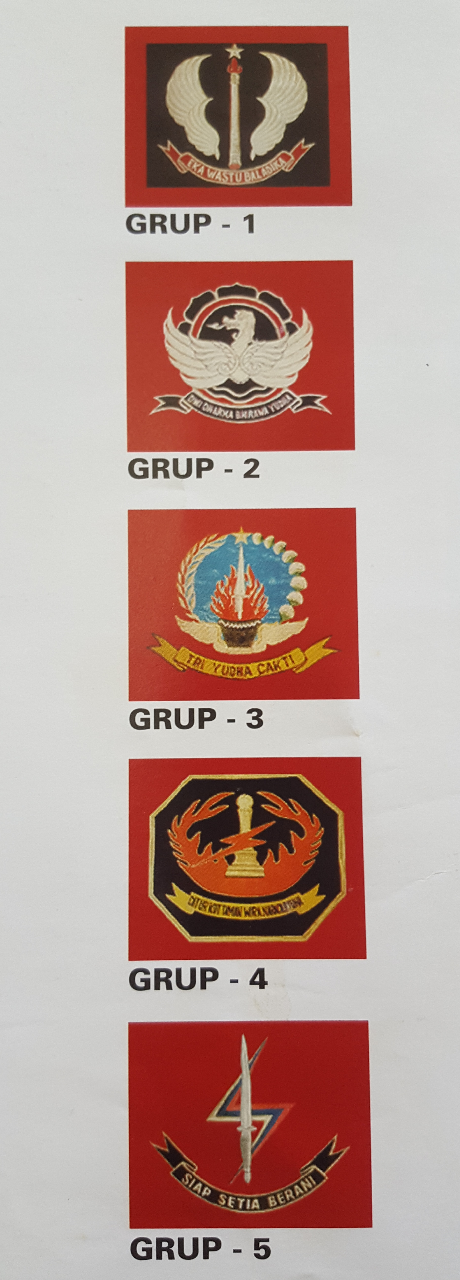 Symbols of Kopassus' groups (divisions)